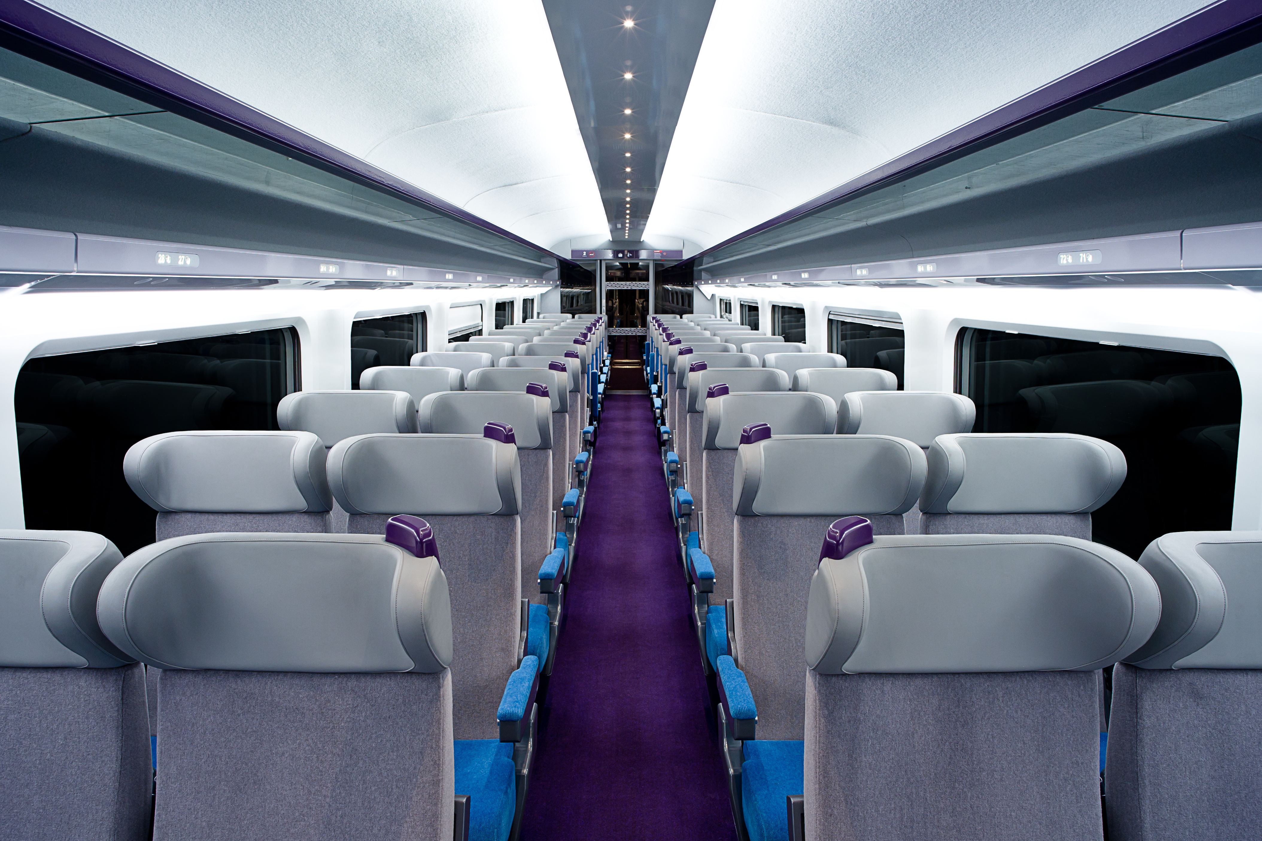 Compin -TGV Sud-Est